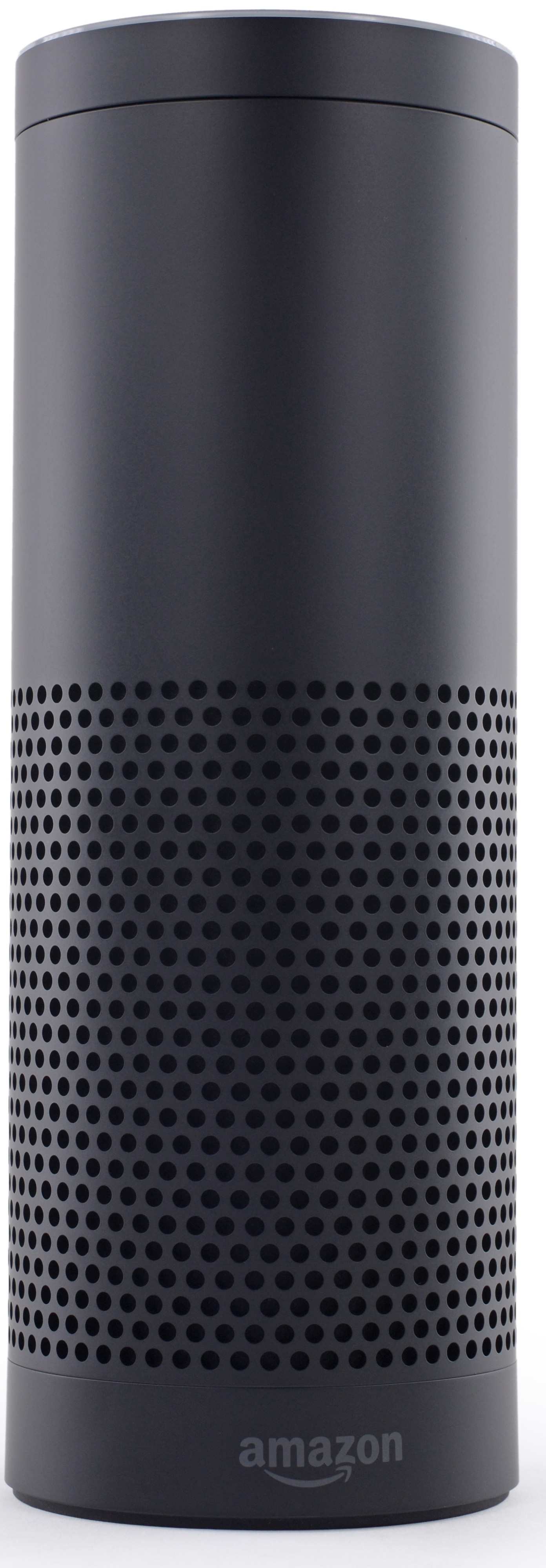 This is the Amazon Echo appliance that is basically a talking speaker.